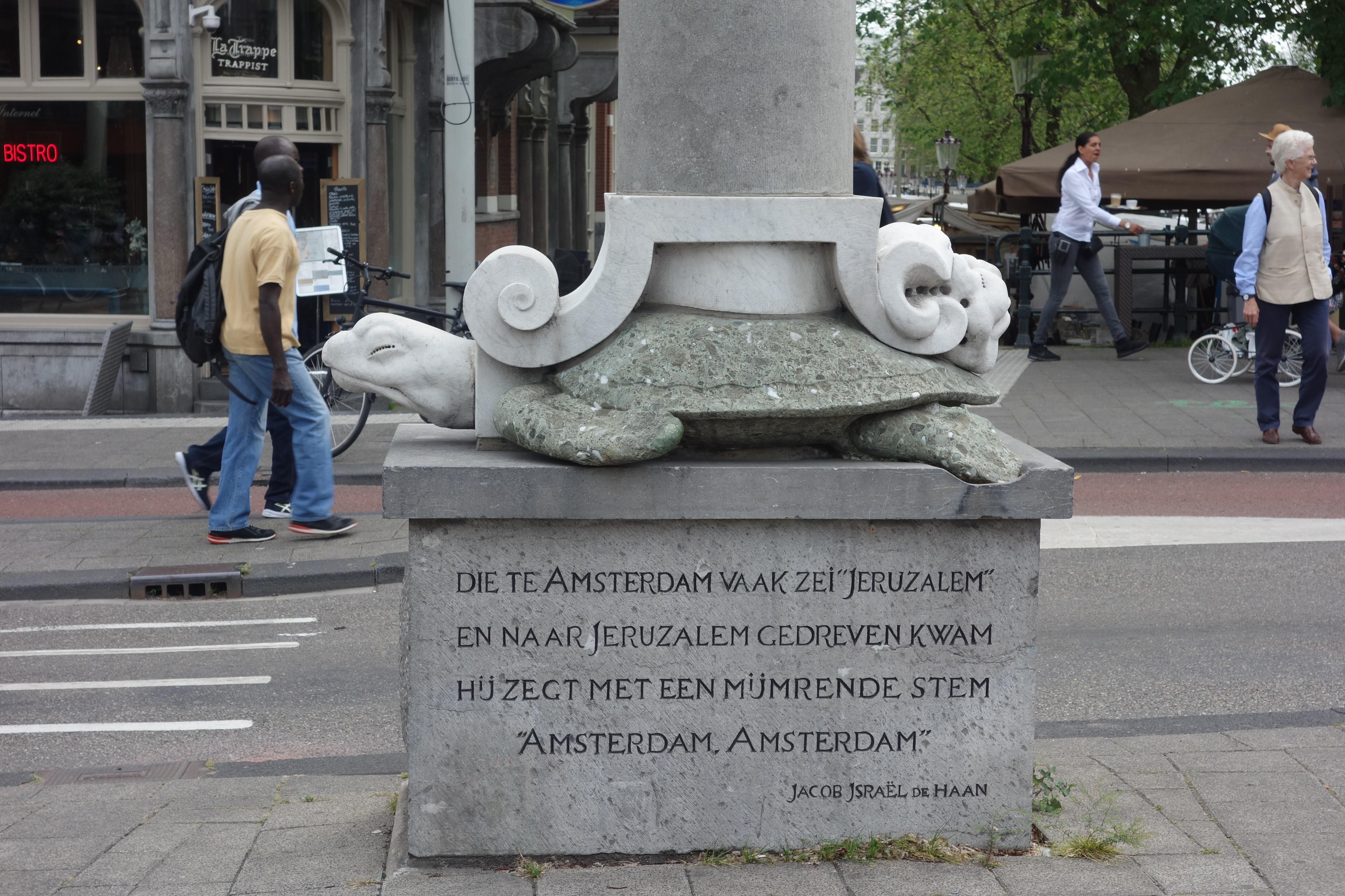 Sculpture in Amsterdam by Hans 't Mannetje. Text reads: Die te Amsterdam vaak zei "Jeruzalem" / en naar Jeruzalem gedreven kwam / hij zegt met een mijmrende stem / "Ämsterdam, Amsterdam". Poem Onrust by Jacob Israel de Haan